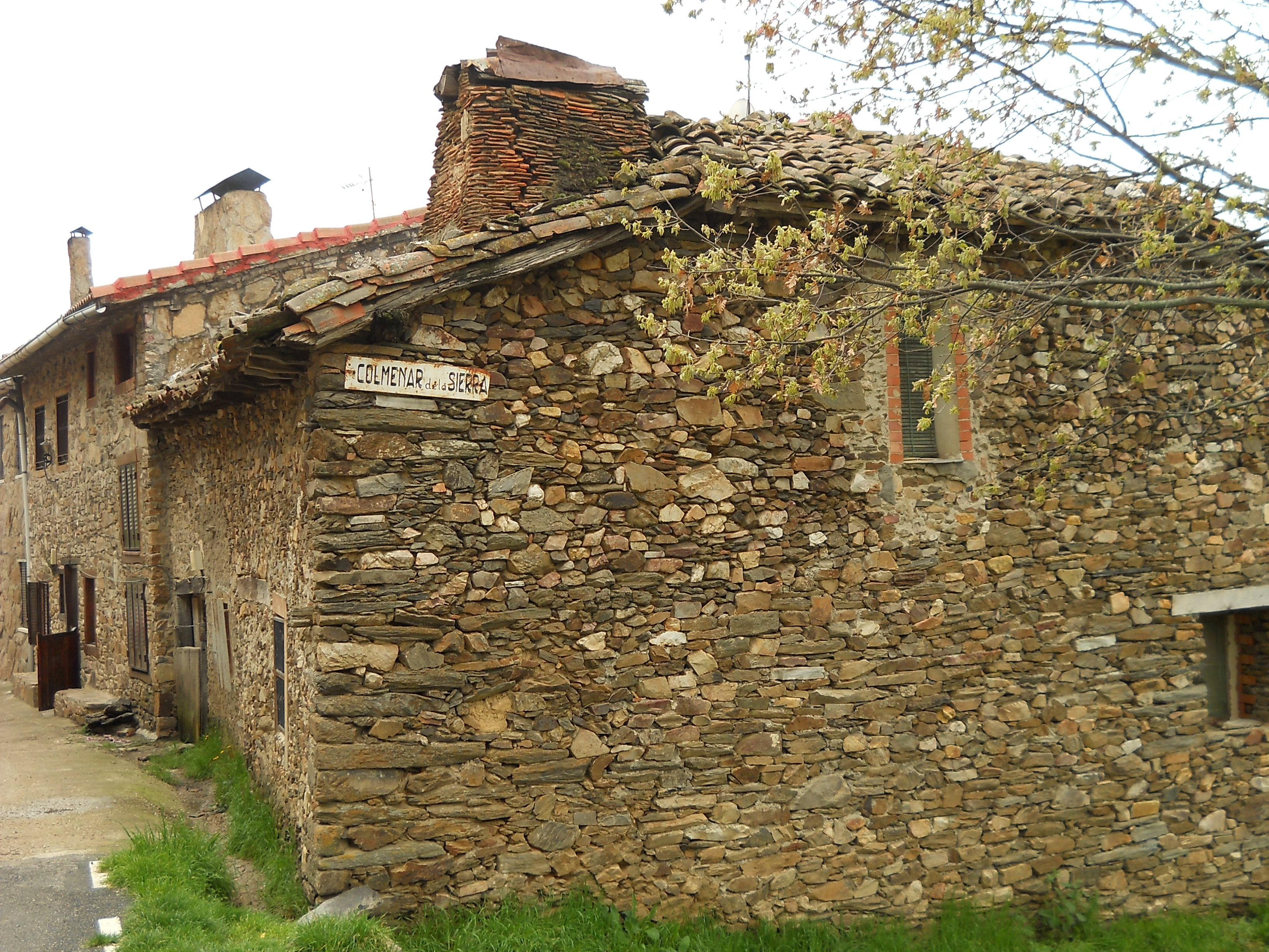 Colmenar de la Sierra, El Cardoso de la Sierra, Guadalajara, Spain